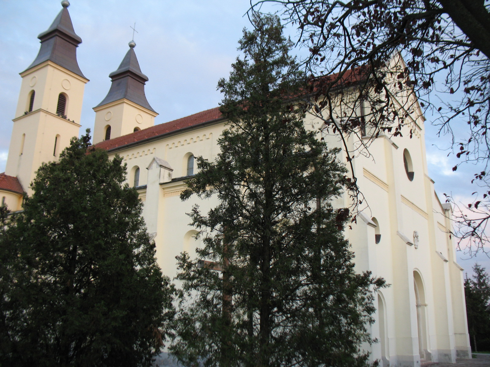 Church in Diakovce